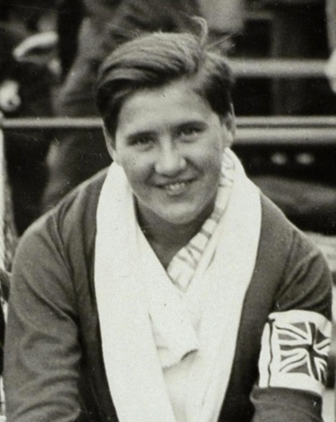 Cissie Stewart, from the 1928 Olympics 4x100m English team